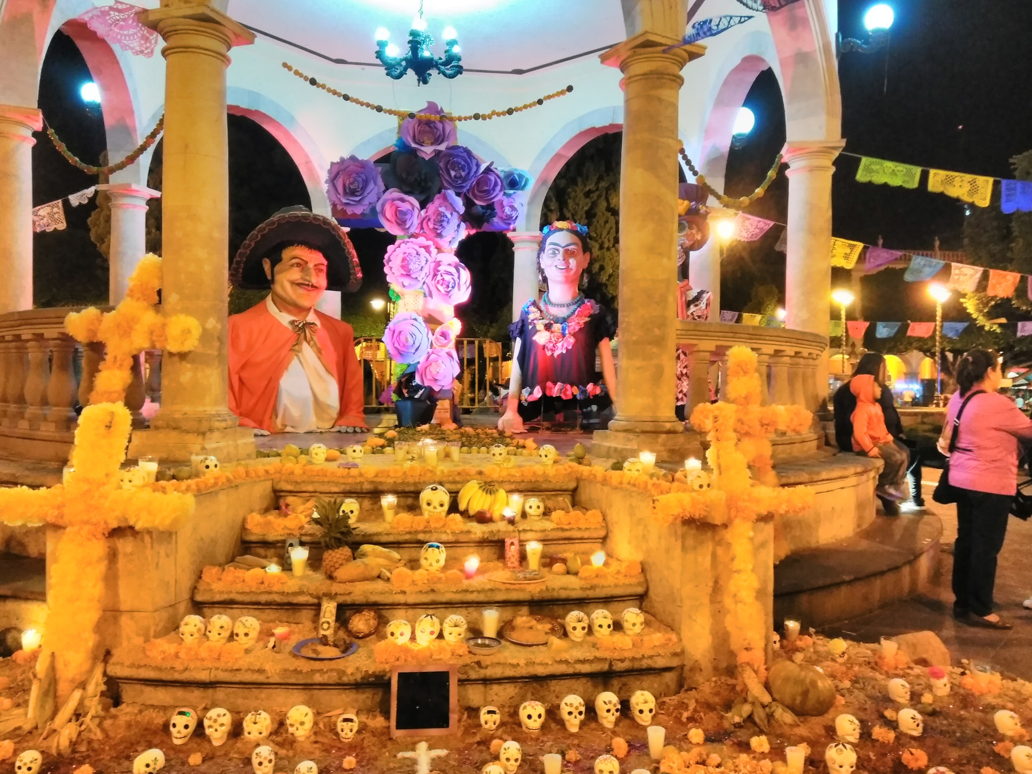 Offering or altar of the dead in kiosko de Moroleón Gto. dedicated to Frida Kahlo and Diego Rivera